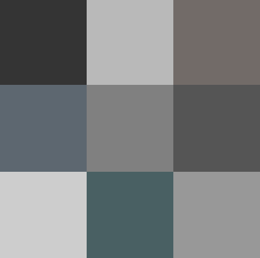 Shades of gray